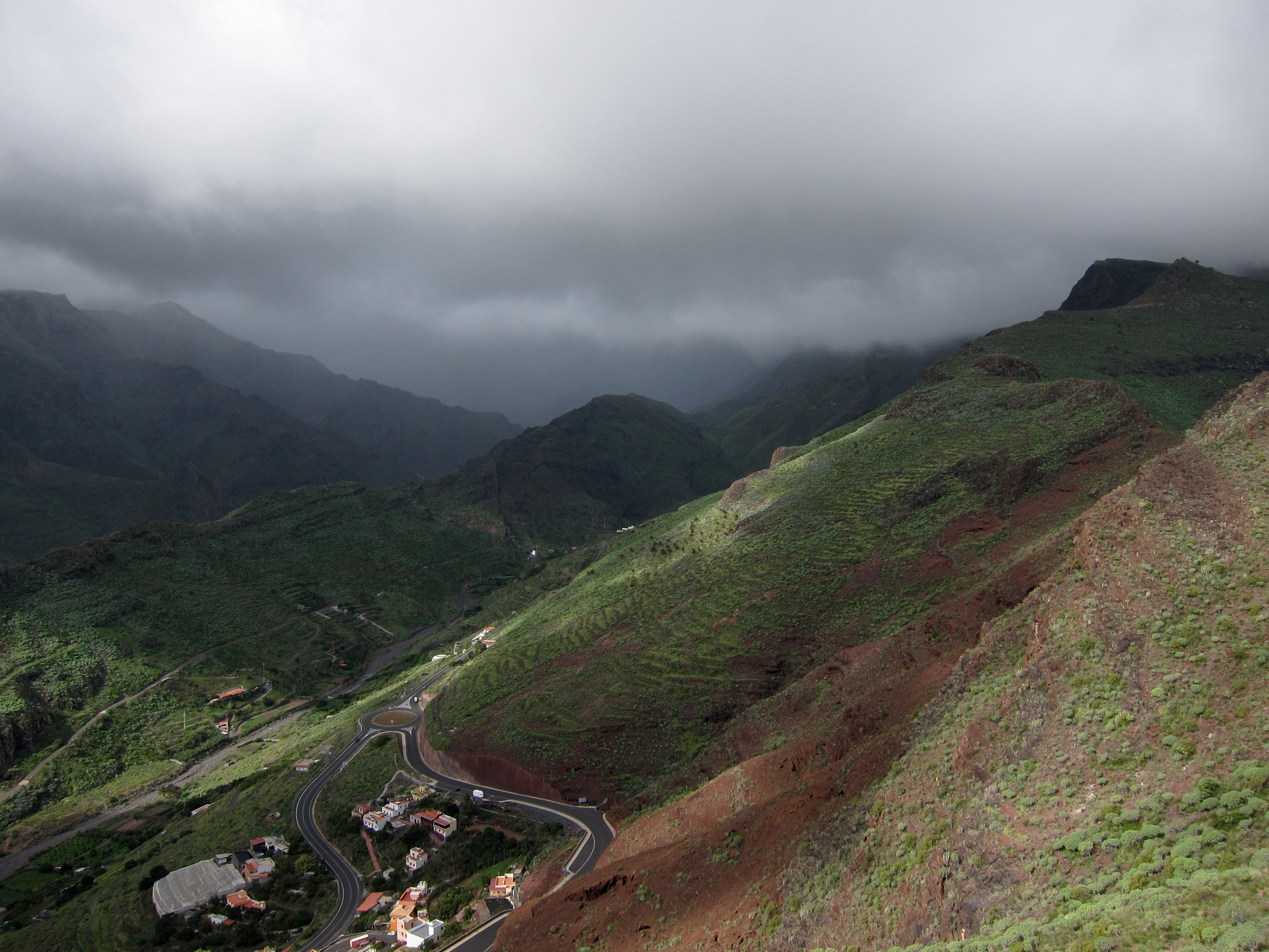 View on a hiking trail northward from San Sebastián de La Gomera on La Gomera